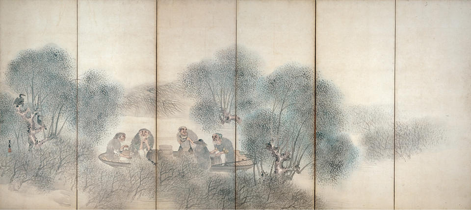 Japan; Screens; Screens